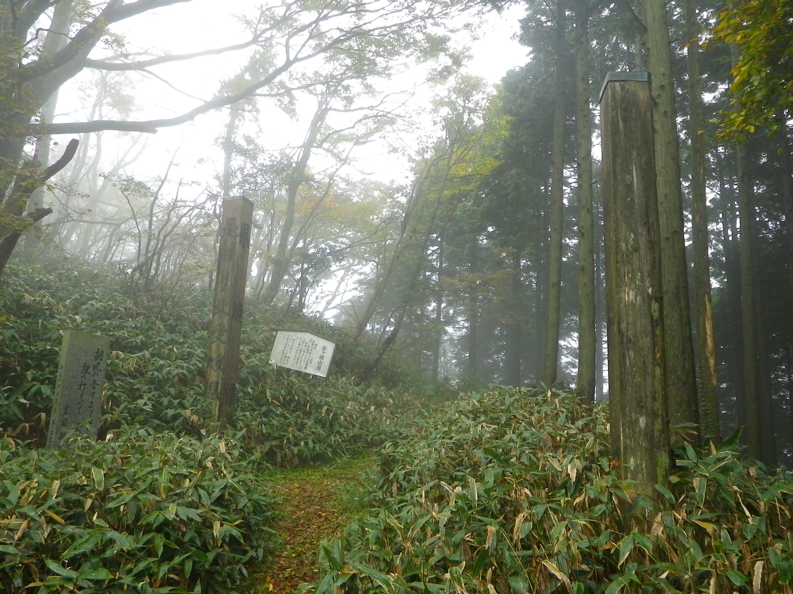 The peak of Sasagamine Pass (Sasagamine-toge)